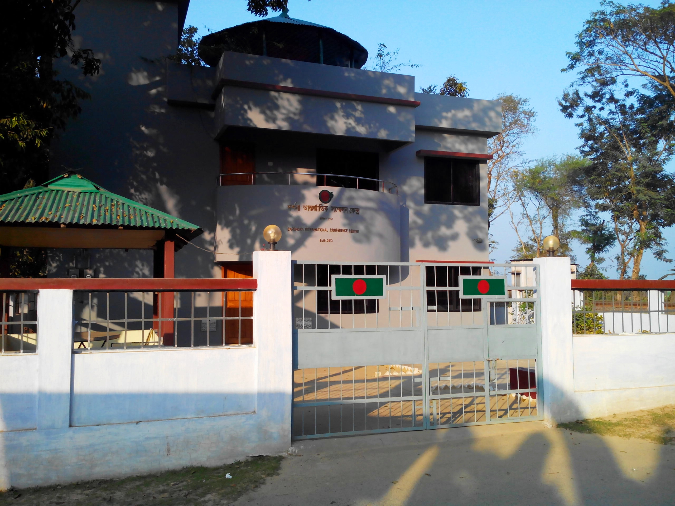 Dhaka International Conference Center, Darshana, Chuadanga